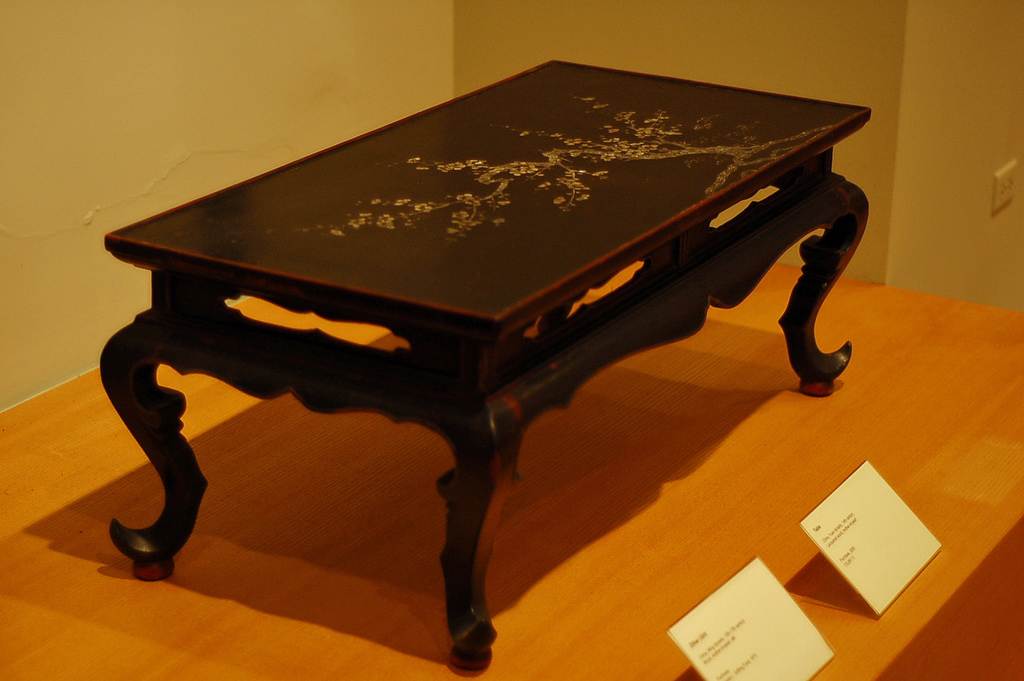 Lacquered wood with mother-of-pearl table, China, Yuan dynasty, 14th century, Honolulu Academy of Arts. Details were difficult to catch because of the darkness of this table and the fact the picture had to be taken in existing light. Again, I took several shots and picked what looked the best.